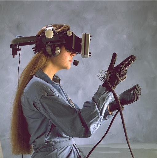 A woman wearing a head-mounted display incorporating Pop Optics goggles developed by NASA's Ames Research Center, and wired gloves. The goggles are now displayed in the Dulles Annex of the National Air and Space Museum of the Smithsonian Institution.